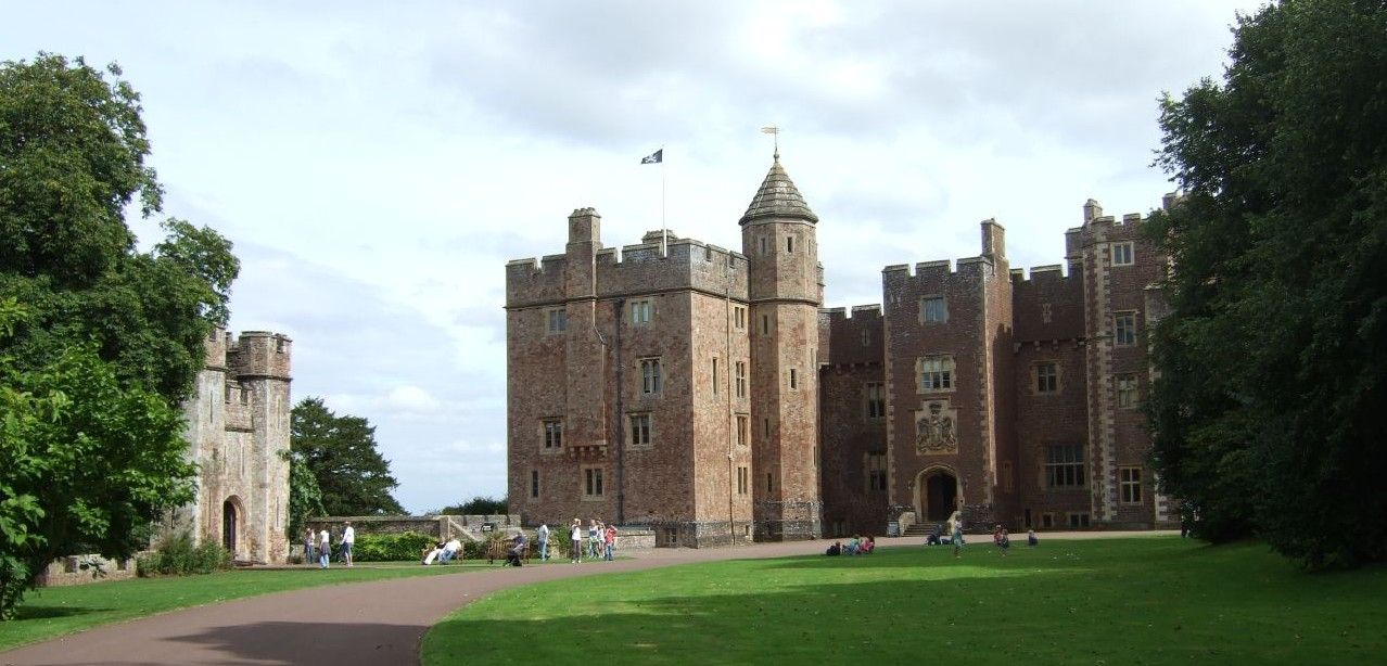 View of Dunster Castle, trimmed